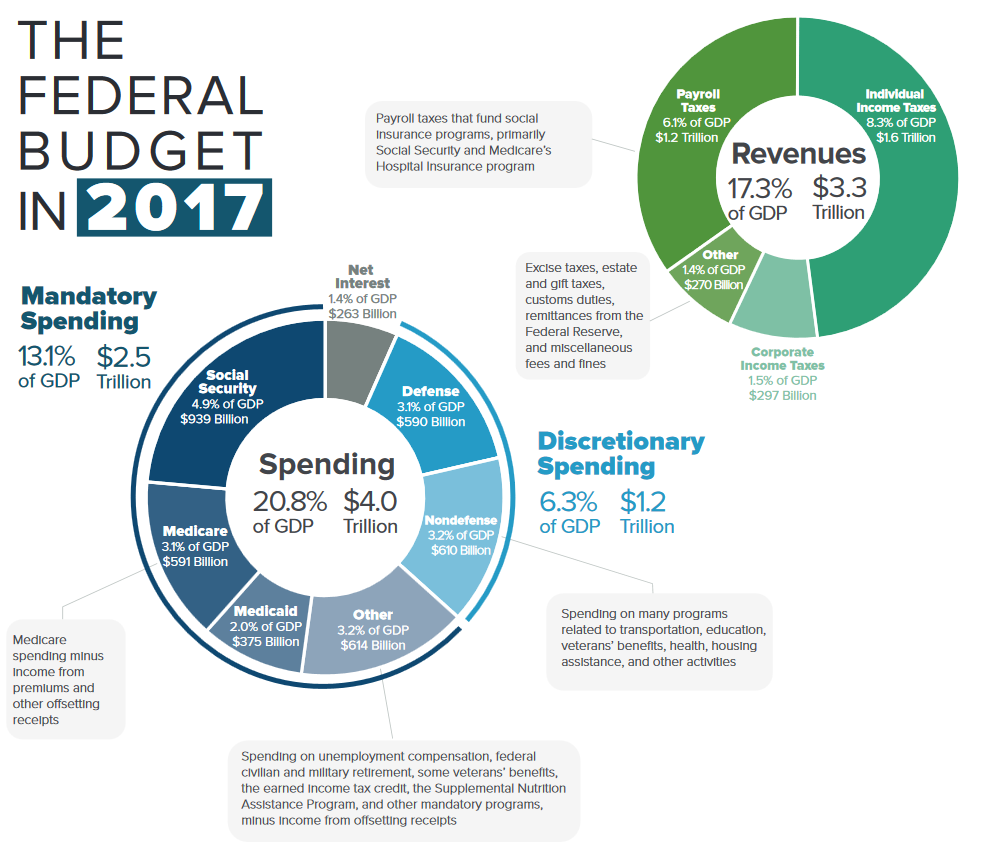 U.S. Federal spending and revenue components for 2017